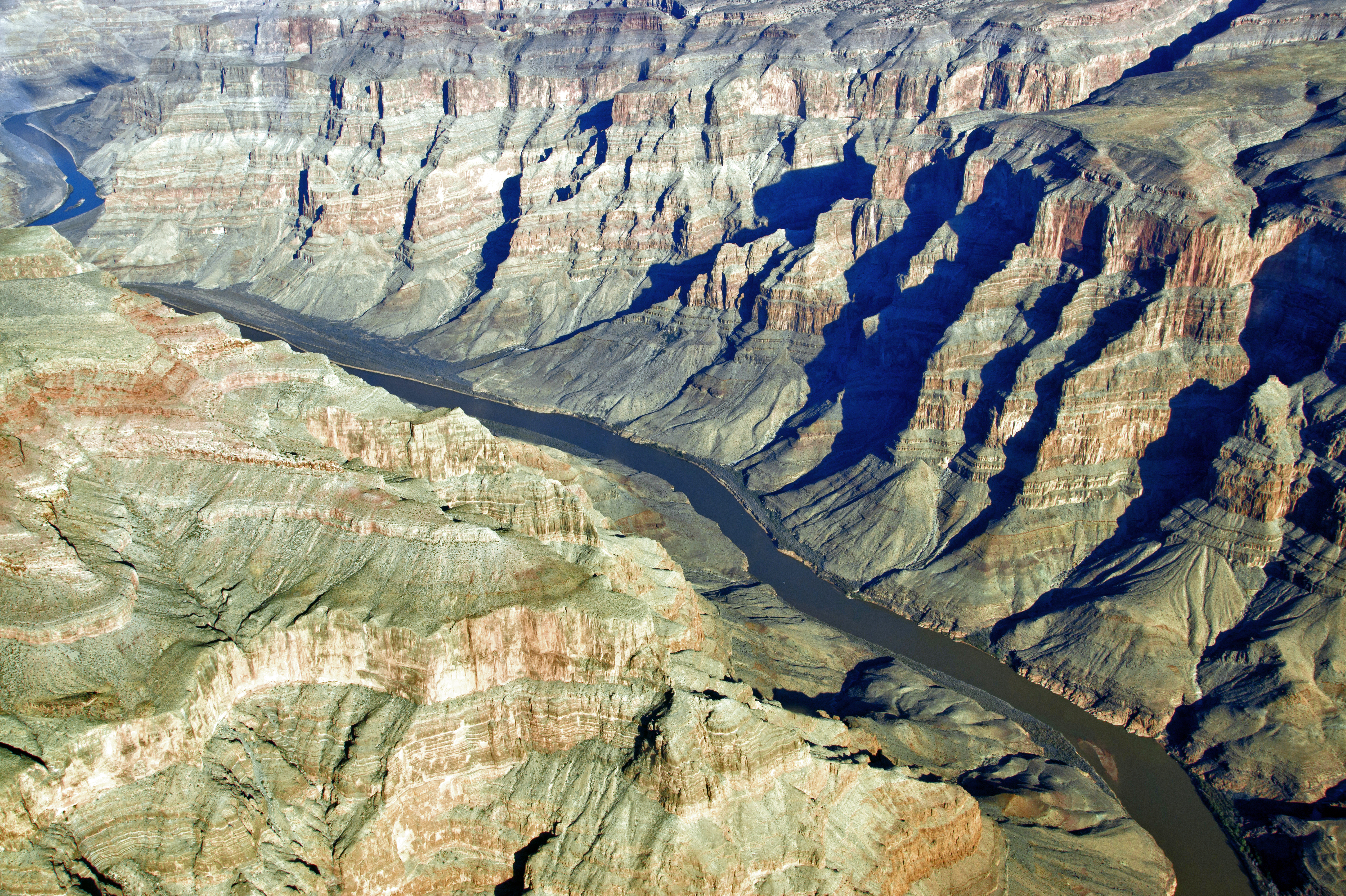 Colorado River - Grand Canyon - Arizona - USA